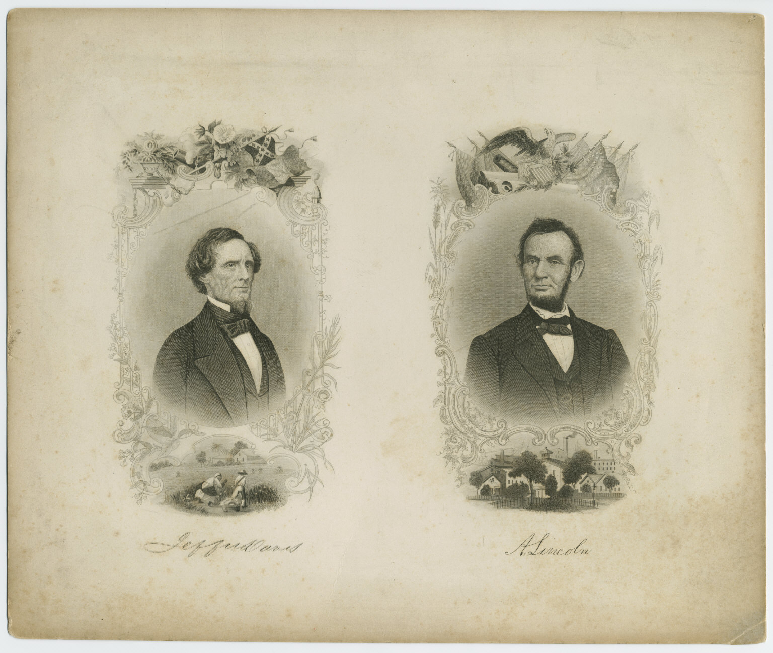 Collection: Cornell University Collection of Political Americana, Cornell University Library Repository: Susan H. Douglas Political Americana Collection, #2214 Rare & Manuscript Collections, Cornell University Library, Cornell University Title: Jefferson Davis and Abraham Lincoln Political Party: Republican Date Made: ca. 1864 Measurement: Print: 10 x 12 in.; 25.4 x 30.48 cm Classification: Prints Persistent URI: There are no known U.S. copyright restrictions on this image. The digital file is owned by the Cornell University Library which is making it freely available with the request that, when possible, the Library be credited as its source.